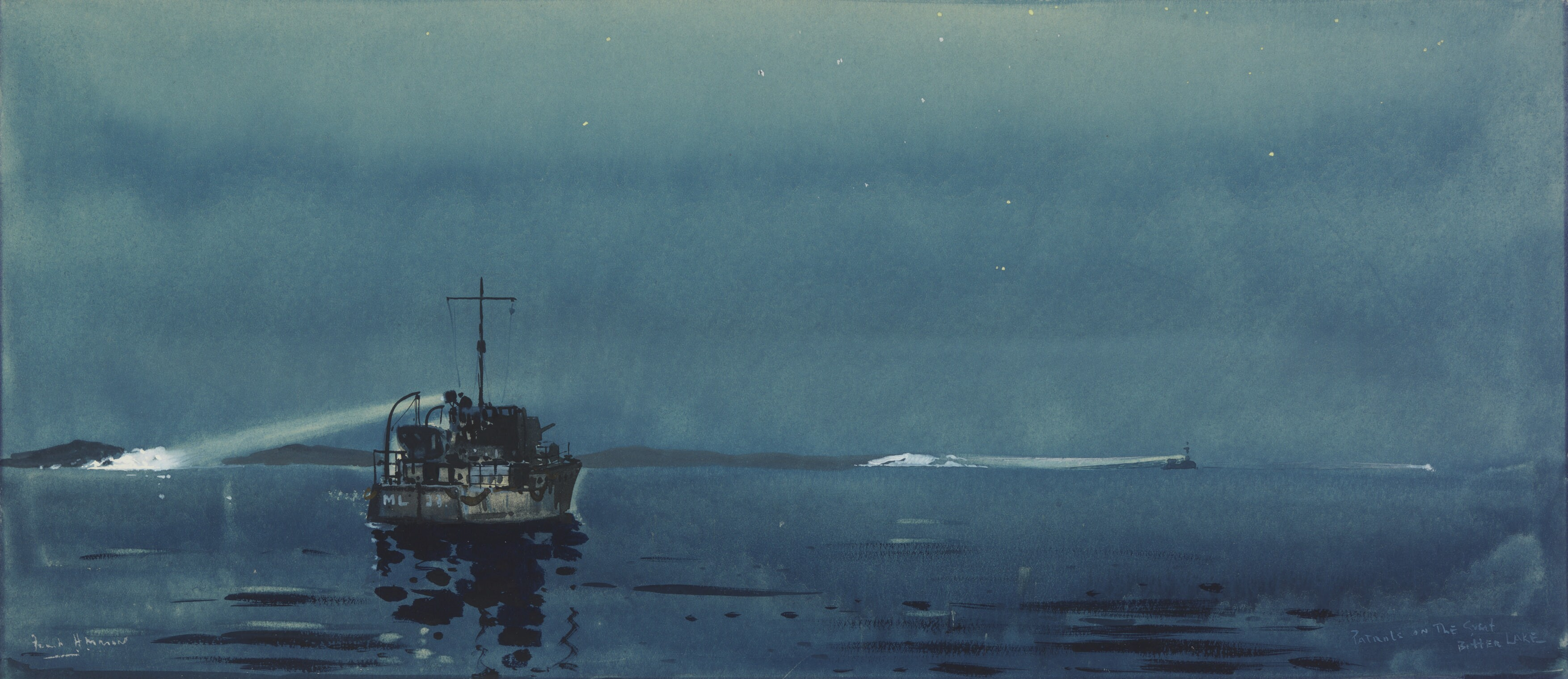 A Searchlight Patrol on the Great Bitter Lake image: a seascape on a starry night. In the left foreground a minesweeper is training a bright searchlight onto the shore, while two other vessels are doing the same in the distance.